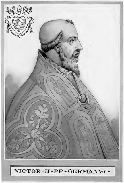 This illustration is from The Lives and Times of the Popes by Chevalier Artaud de Montor, New York: The Catholic Publication Society of America, 1911. It was originally published in 1842.